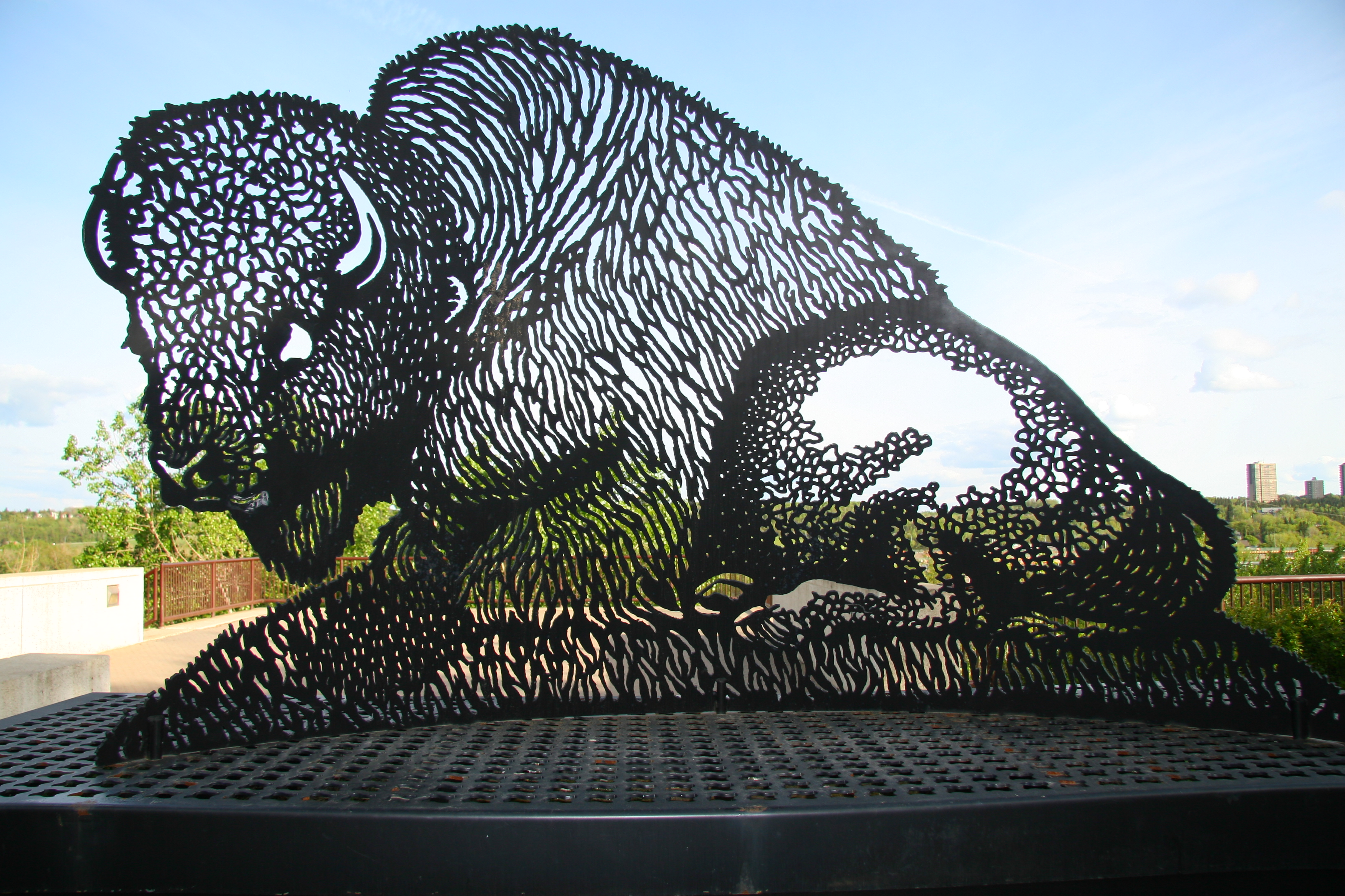 Sculpted in stainless steel by Joe Fafard in Edmonton/Canada